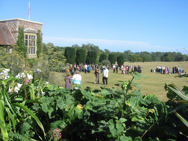 House, garden & opera buffs A glorious summer evening - for a few lucky folk. Myself included.